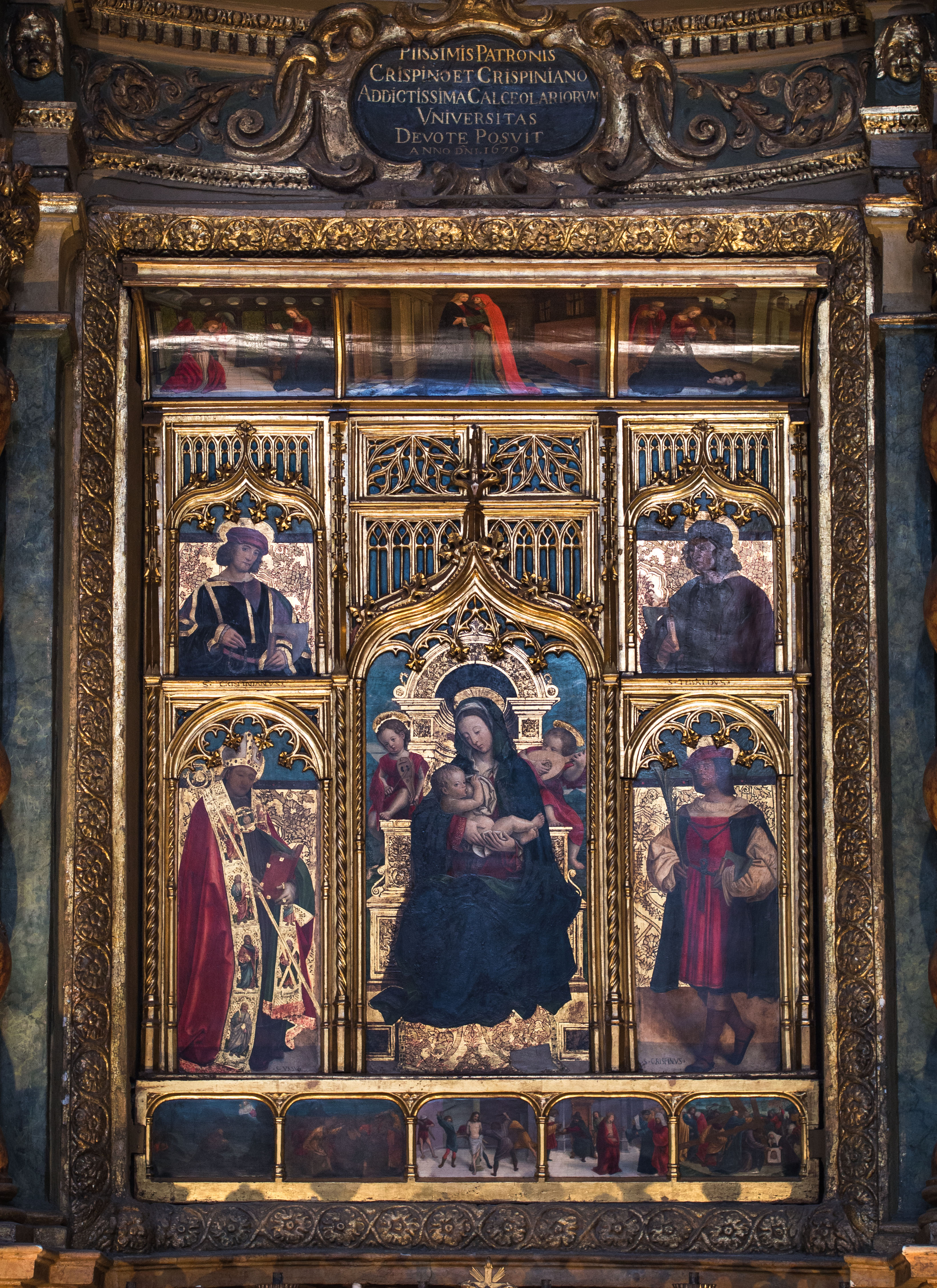 The Polyptych of St. Crispin and Crispiniano